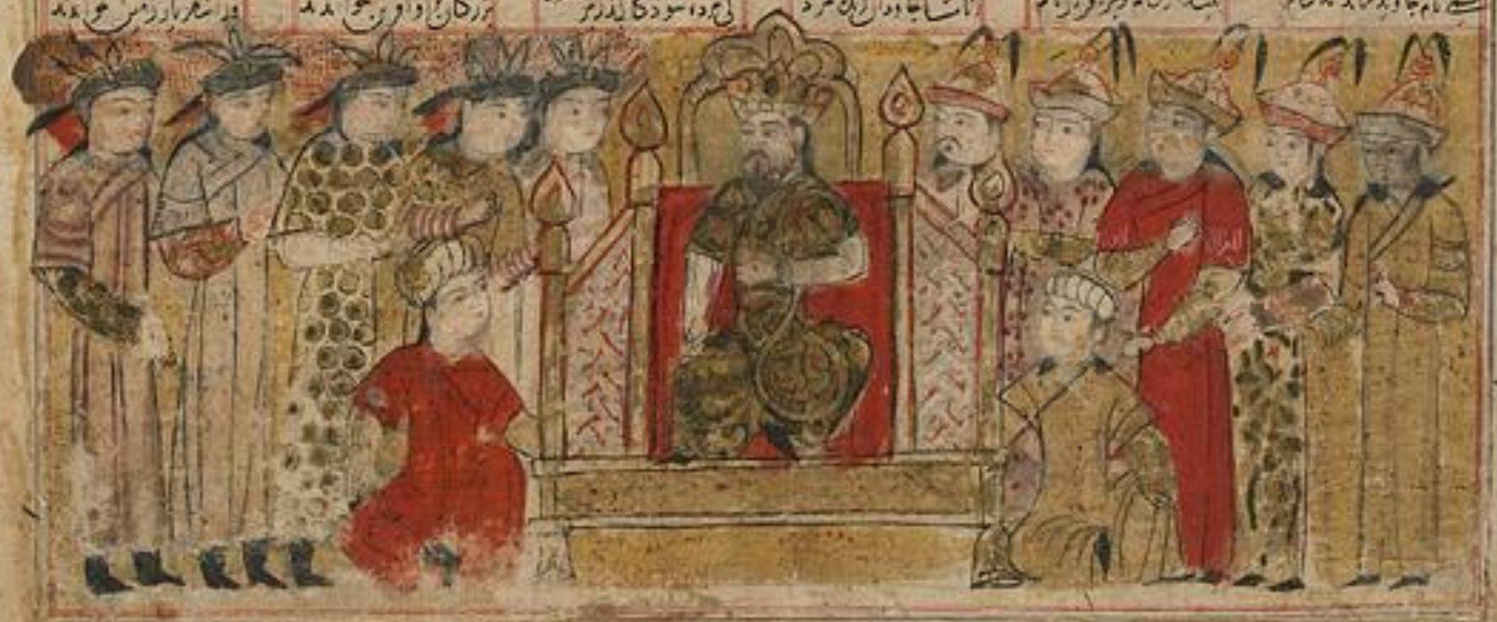 Artwork of the coronation of the Sasanian king Yazdegerd III.